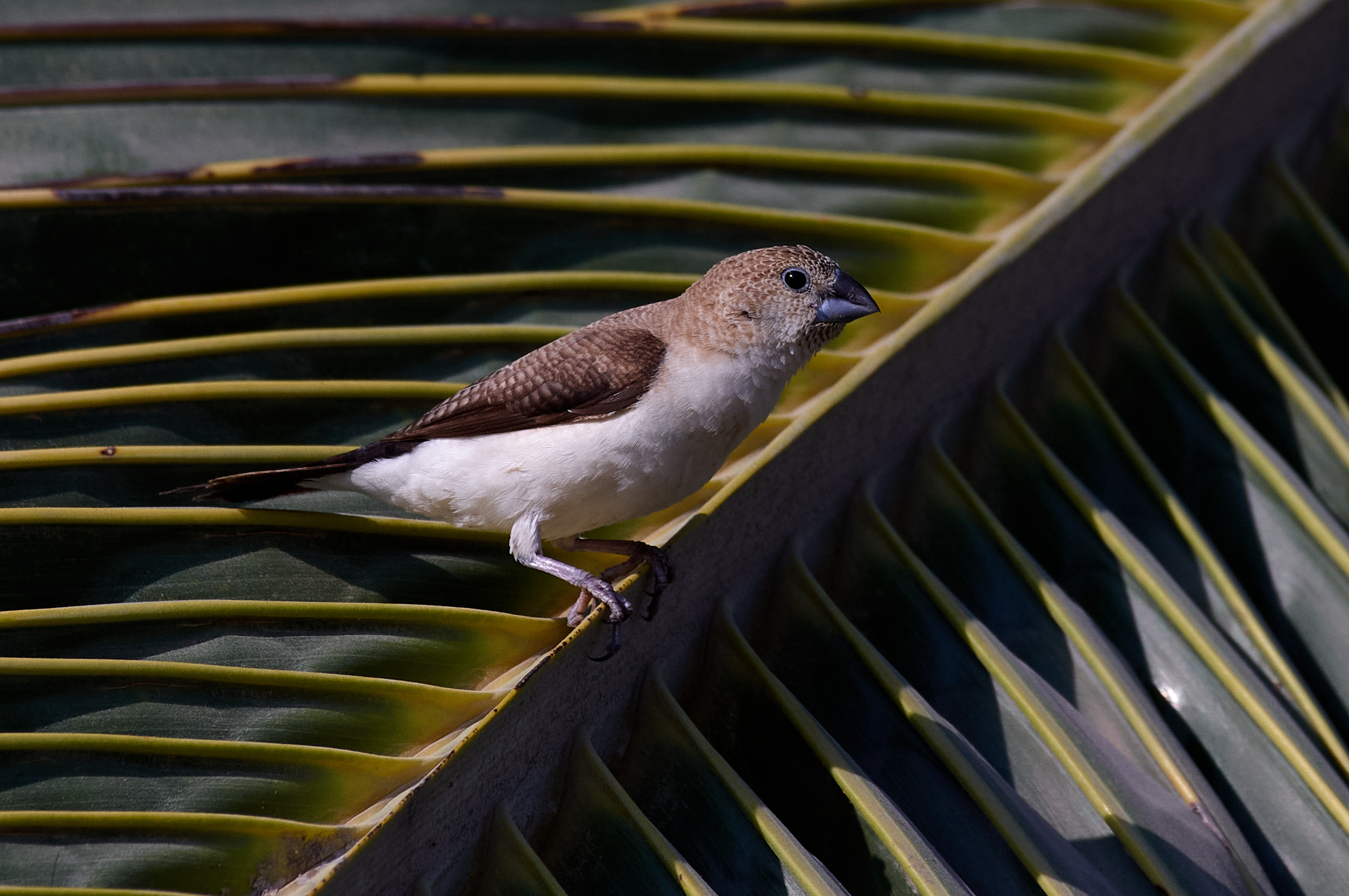 African silverbill (Euodice cantans), Salalah, Oman